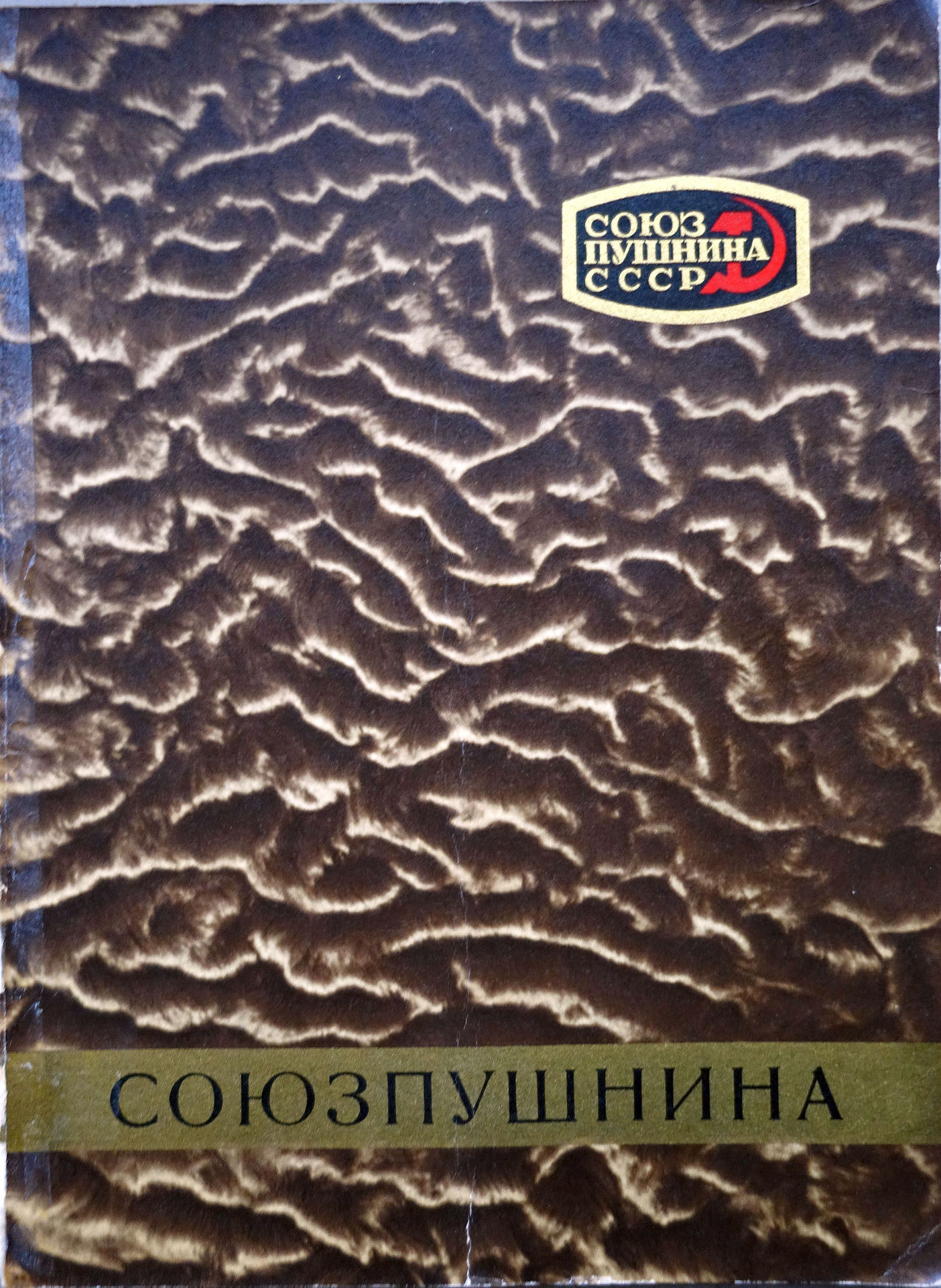 Soviet Furs, Sojuzpushnina, USSR - СОВЕТСКАЯ ПУШНИНА СоюзпушнинА (ca. 1960s).